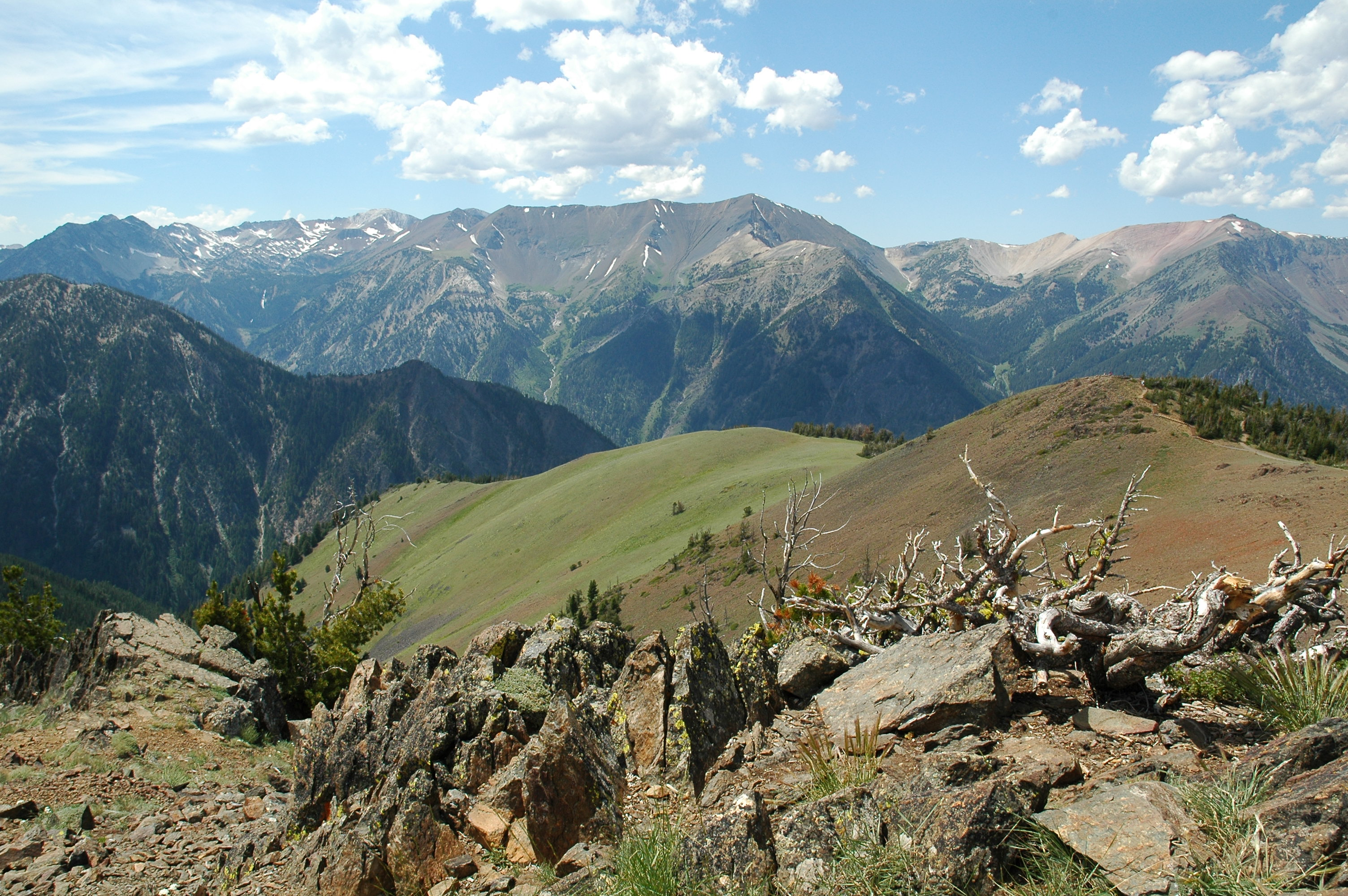 Oregon's Wallowa Mountains viewed from Mount Howard. Hurwal Divide is in the front and center, Sacajawea Peak is behind and to the left. Matterhorn is the gray one left of that.